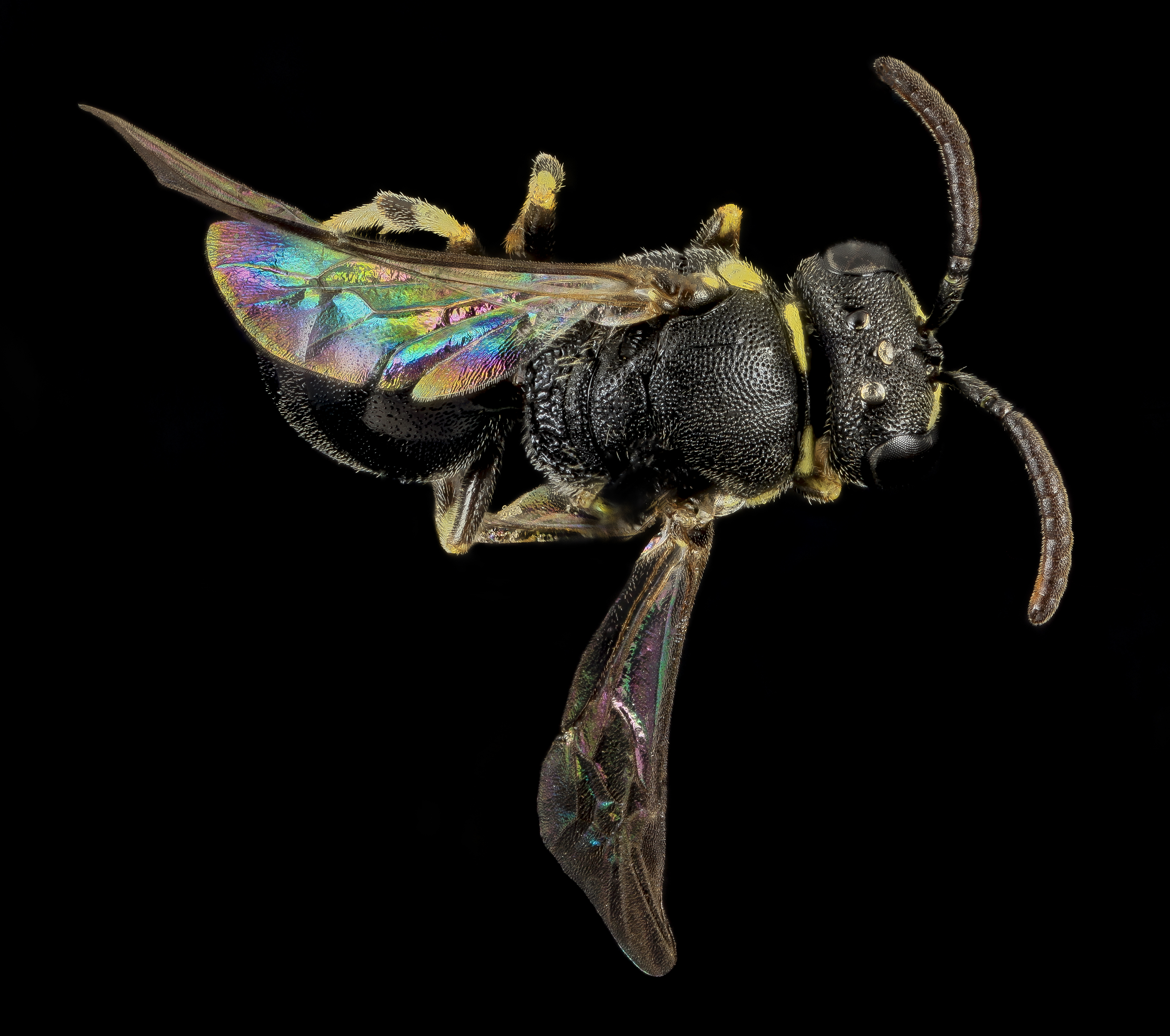 In rough translation this would be the "Florida Masked Bee." Tiny, grain of rice things, and usually mistaken for wasps as they carry their pollen internally rather than in their body hairs like other bees. Thus they have reverted to the wasp shape from whence bees came. This is a rare species collected by Heather Campbell as part of her survey of a sandhill area of North Carolina. Photo by Wayne Boo Canon Mark II 5D, Zerene Stacker, 65mm Canon MP-E 1-5X macro lens, Twin Macro Flash, F5.0, ISO 100, Shutter Speed 200, link to a .pdf of our set up is located in our profile